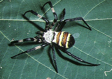 female Argiope amoena from Okinawa.